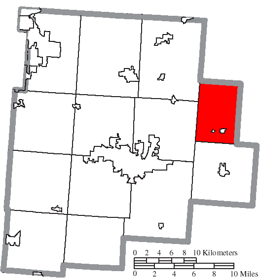 Map of the municipal and township boundaries of Fairfield County, Ohio, United States, as of the 2000 census, with the location of Richland Township highlighted. Township borders are shown only in unincorporated areas in order to differentiate incorporated and unincorporated areas more clearly.